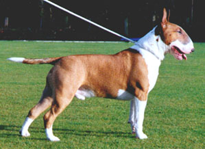 Bull Terrier Profile/Conformation Originally uploaded to the English Wikipedia by Meghaduta.